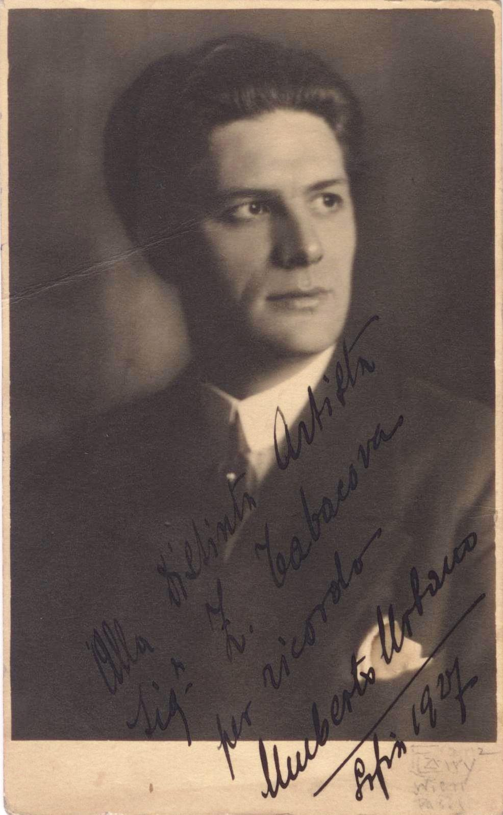 Italian opera singer Umberto Urbano - postcard with autogrpah in the archive of Tzvetana Tabakova. Sofia